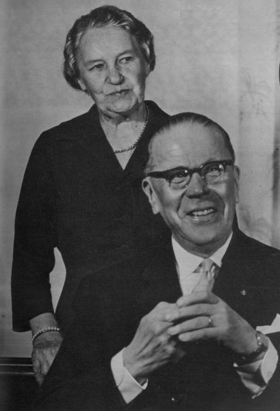 Photograph of the Finnish industrialist and patron Yrjö Similä (1884–1961) with his wife Fanny Similä (1879–1973).